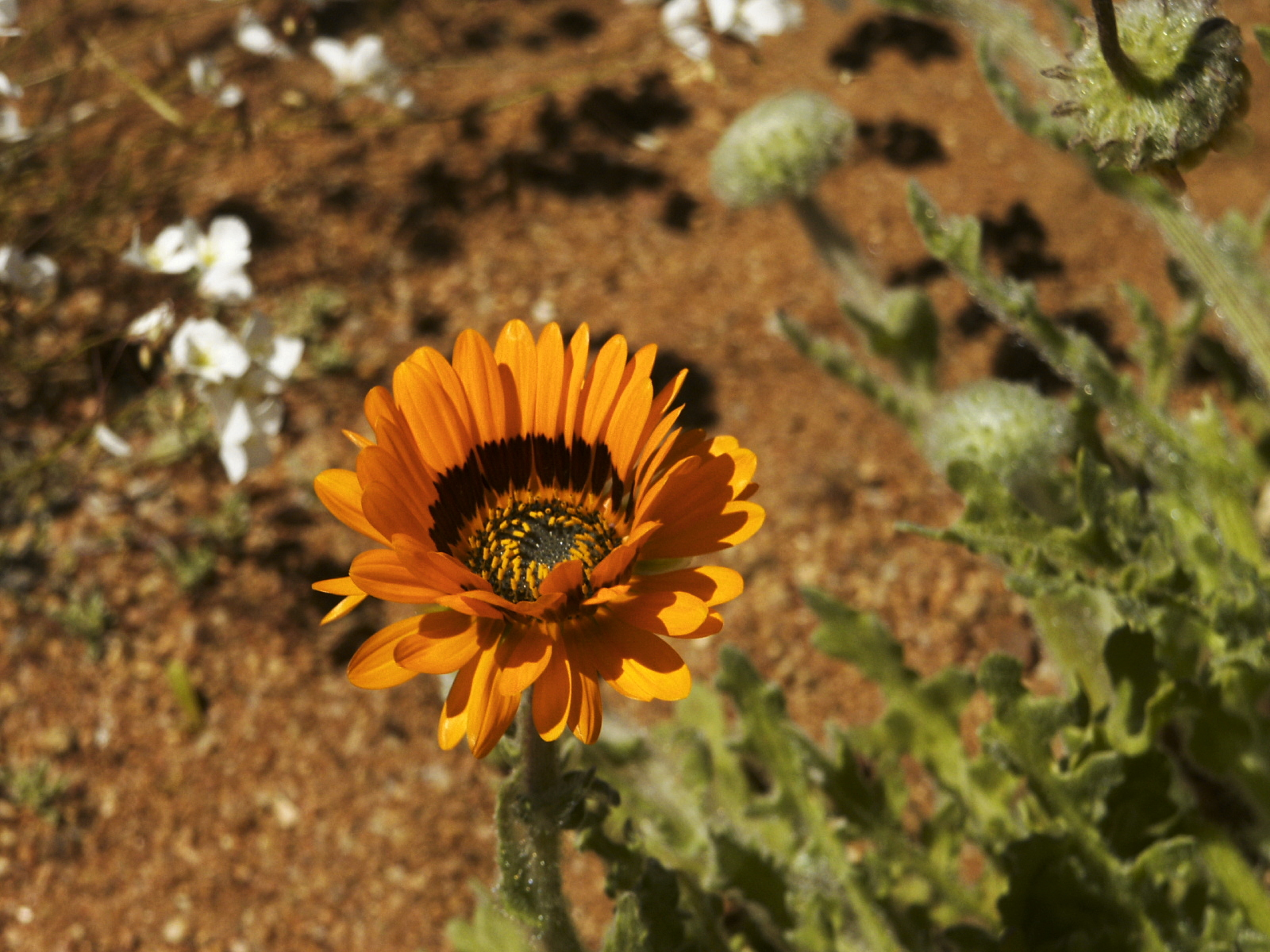 Namaqualand arctotis, Iceland daisy, Namaqua marigold, double Namaqualand daisy,‘‘(Arctotis fastuosa Jacq.)’’, flowering Desert, Namaqualand, Goegap Nature Reserve, Northern Cape, South Africa